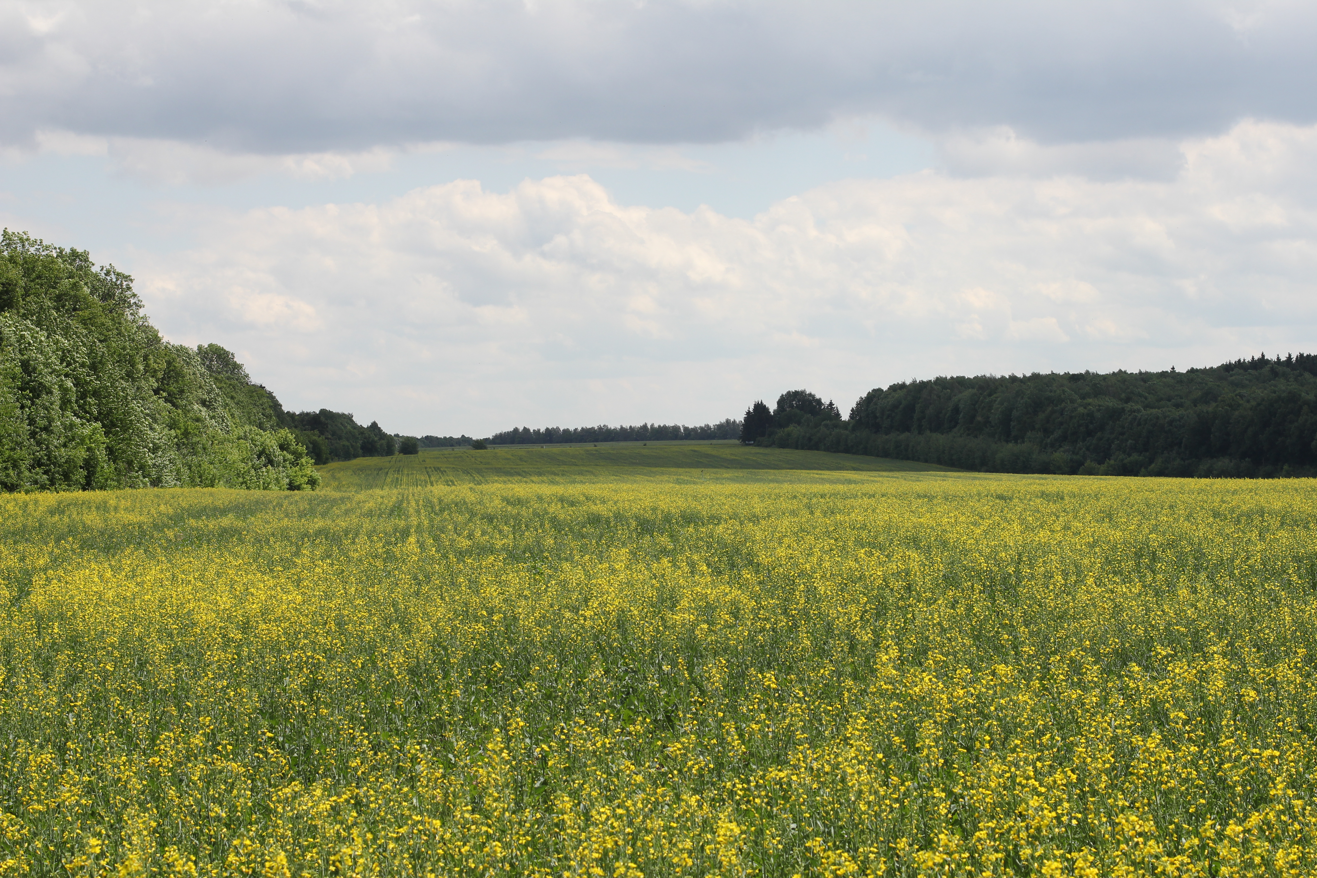 Rapeseed field (Brassica napus). Ukraine.